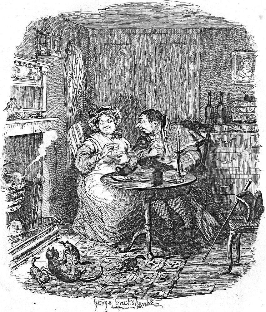 Steel-plate engraving for 'Oliver Twist' by Charles Dickens (1838) - illustration by George Cruikshank (1792-1878)